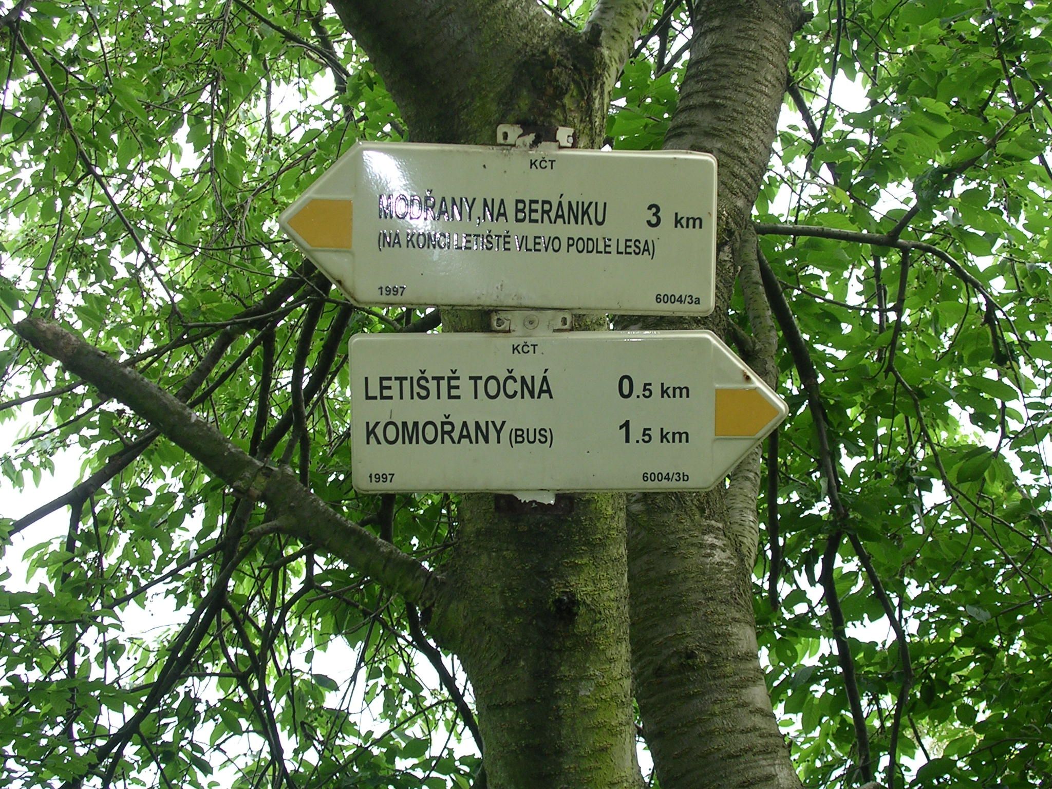 Točná and Cholupice, Prague, the Czech Republic. Hiking fingerpost.